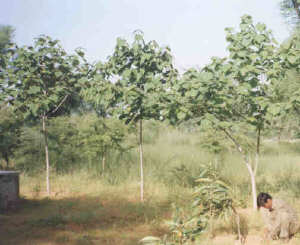 Gmelina arboria or Gamhar tree planting